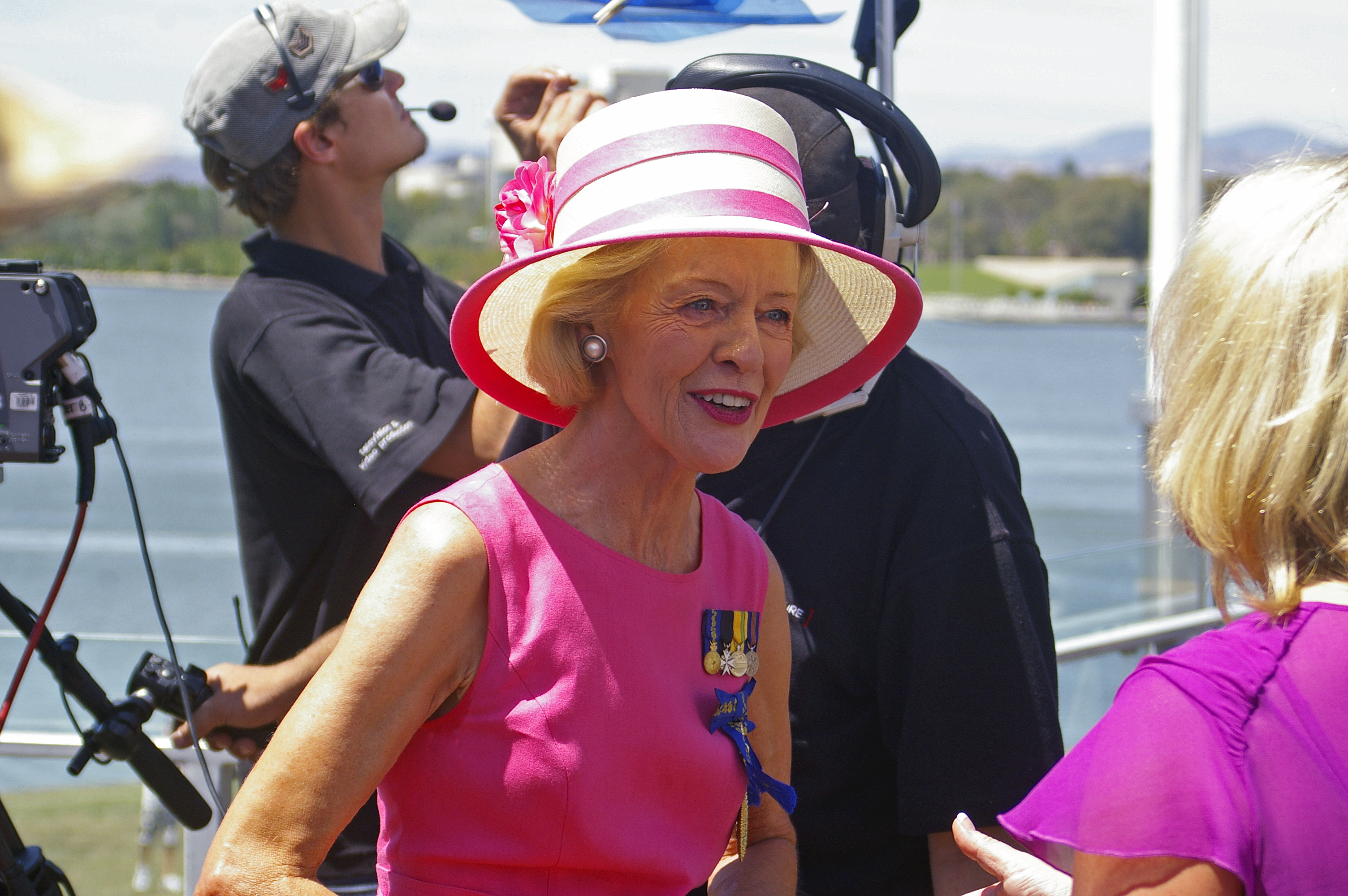 Governor-General of Australia, Quentin Bryce after an interview with Sky News Australia at The Deck at Regatta Point, Canberra.